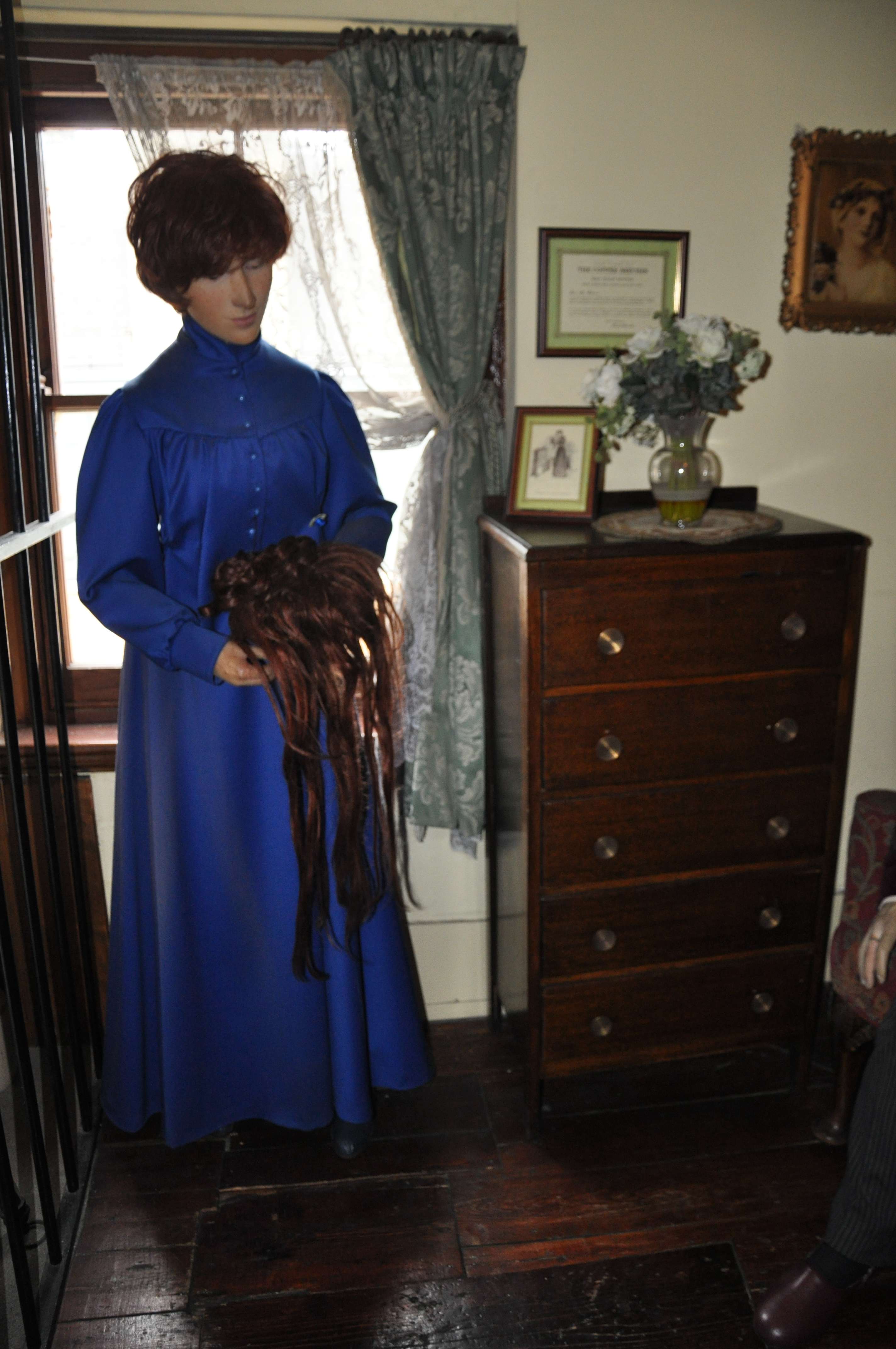 Sherlock Holmes Museum, Baker Street, London Figure illustrating "The Adventure of the Copper Beeches"